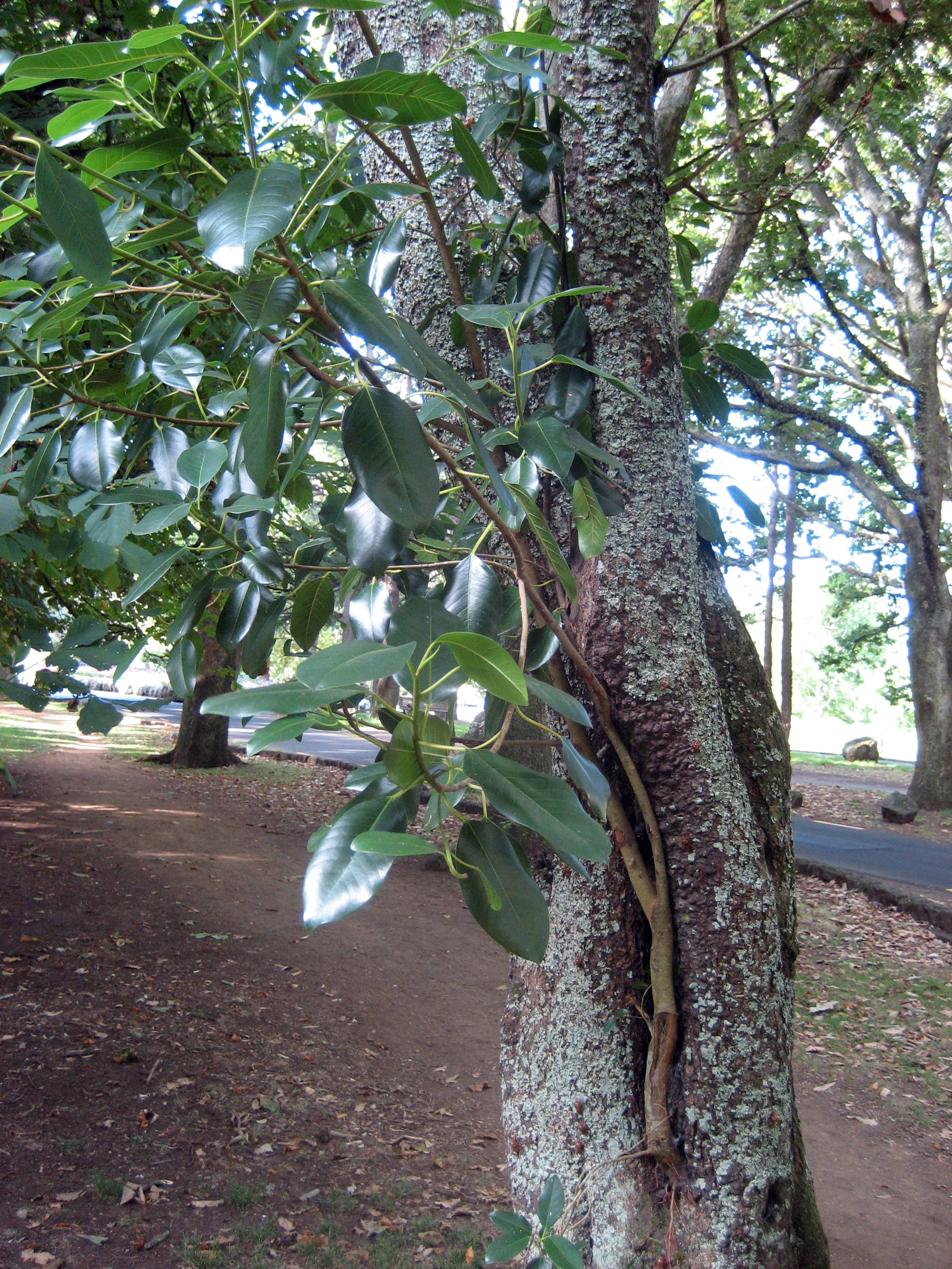 An increasingly common sight in northern New Zealand. A young plant of the Australian banyan-type fig Ficus macrophylla, Moreton Bay Fig, has started life as an epiphyte on a Kōwhai tree (Sophora sp.), in Cornwall Park, Auckland, New Zealand. The seed from which this plant grew must have been deposited here by a bird that ate the fruit from one of the very large Moreton Bay Figs that grow nearby in this park. Ficus macrophylla is commonly cultivated in northern New Zealand. It has now acquired its pollinating wasp (Pleistodontes froggatti), apparently by long-distance dispersal. The size and vigour of this fig and its lack of natural enemies (notably an immunity to possum browsing) indicate that it may be able to invade forest and other native plant communities. The Moreton Bay Fig has been found growing on both native and introduced trees in Auckland.